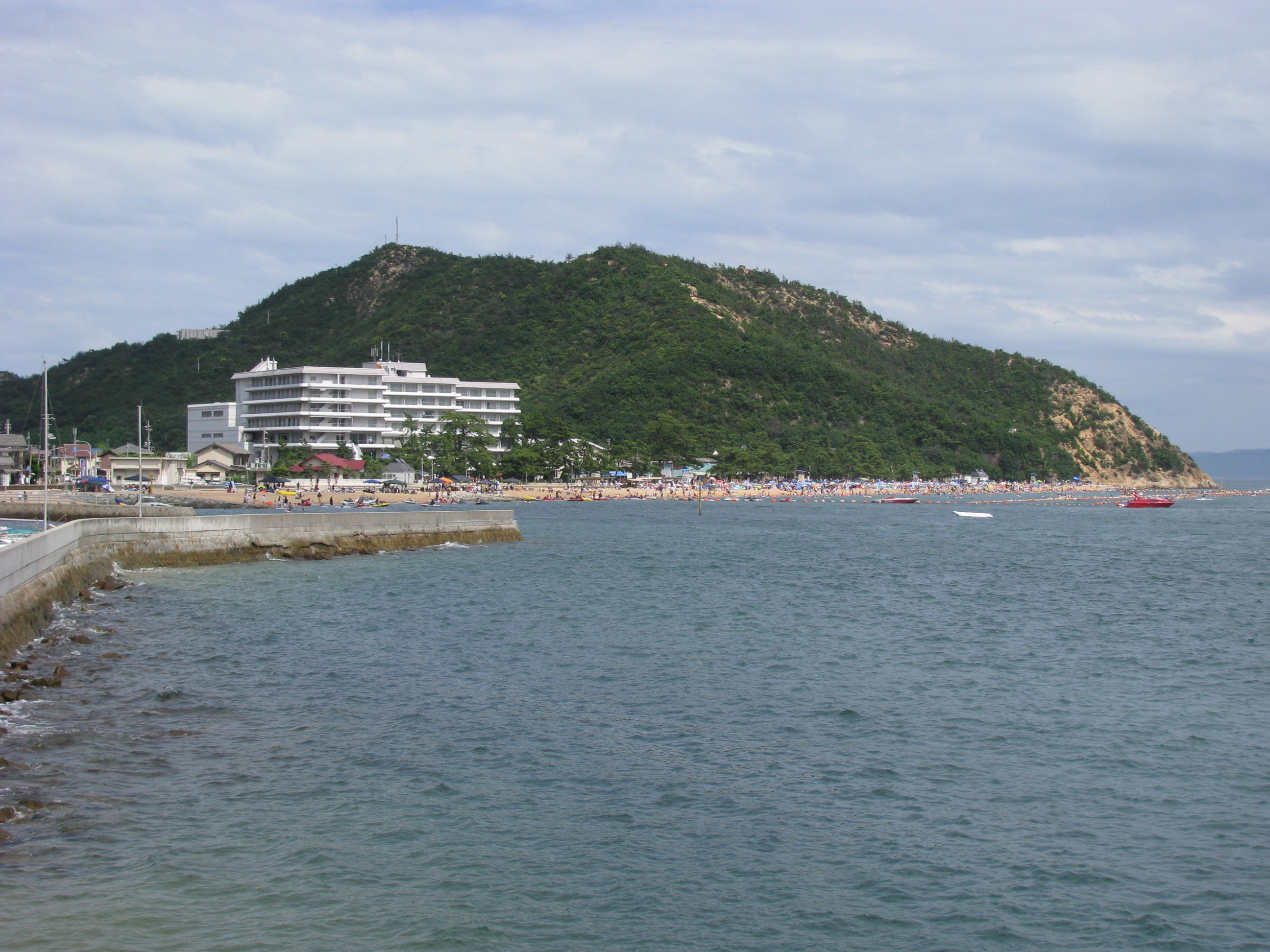 The Shibukawa-kaigan. This place is Tamano, Okayama, Japan.